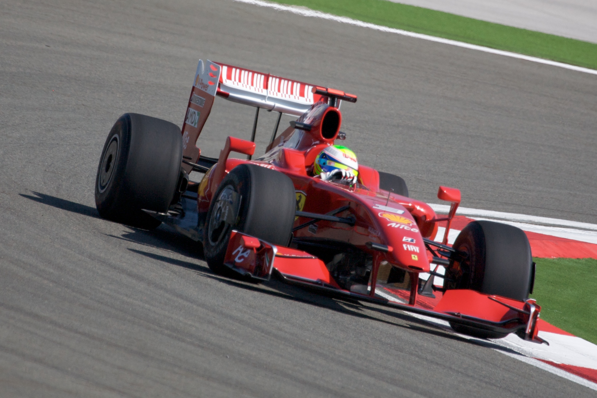 Felipe Massa driving for Scuderia Ferrari at the 2009 Turkish Grand Prix.